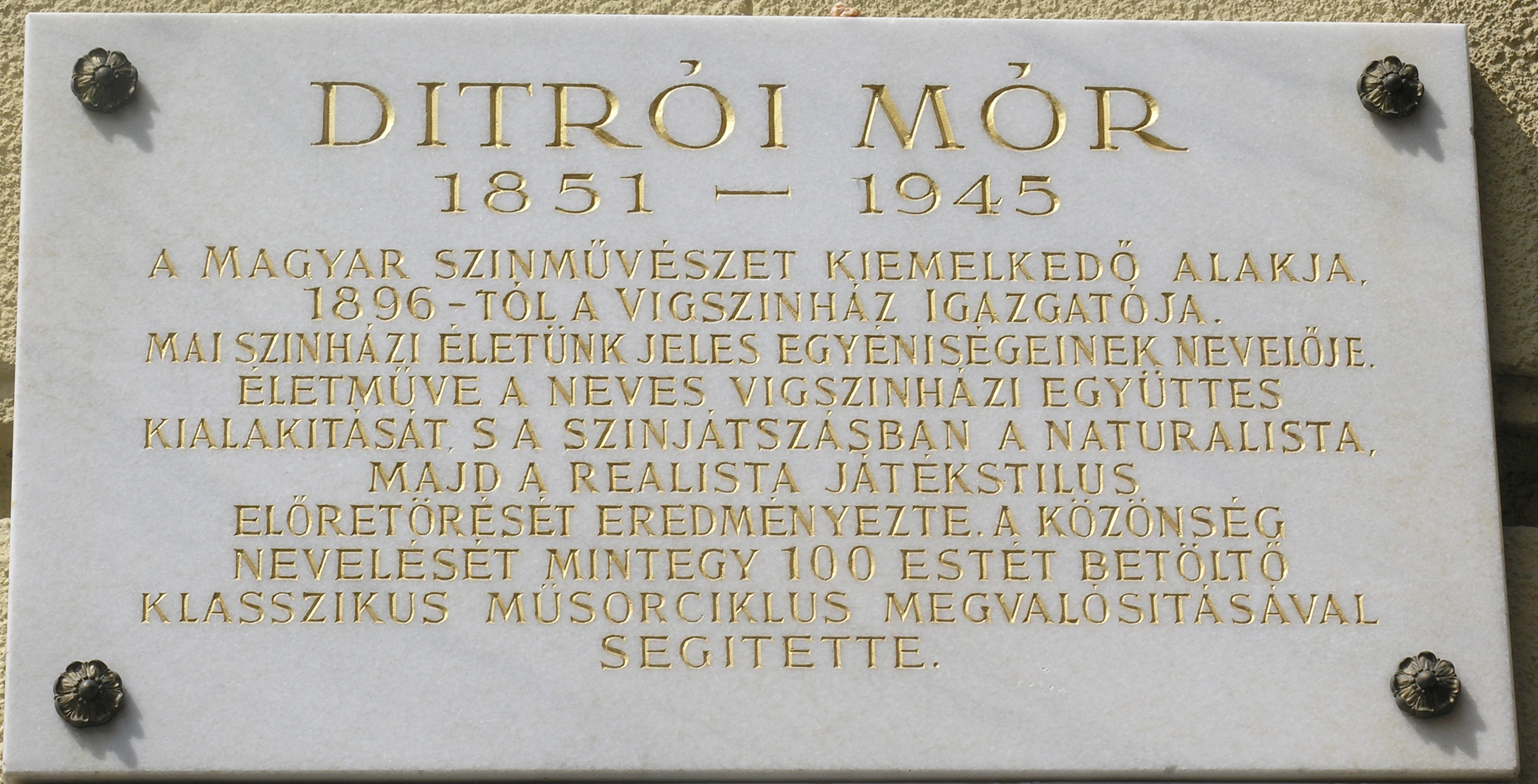 Commemorative plaque of Mór Ditrói in Budapest District XIII, Ditrói Mór Street No 2